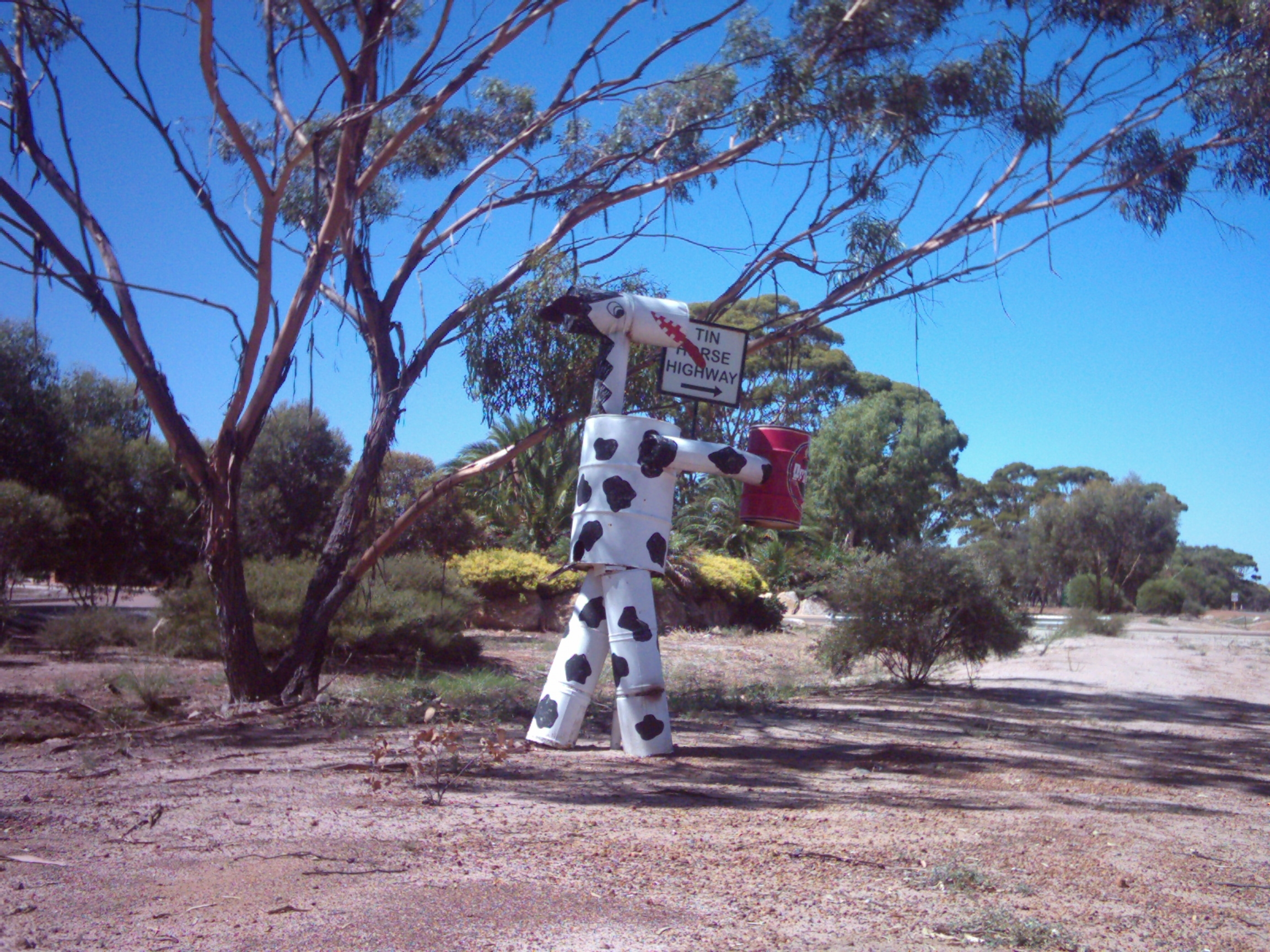 One the many tine characters (mostly horses) that line line the road near Kulin WA.